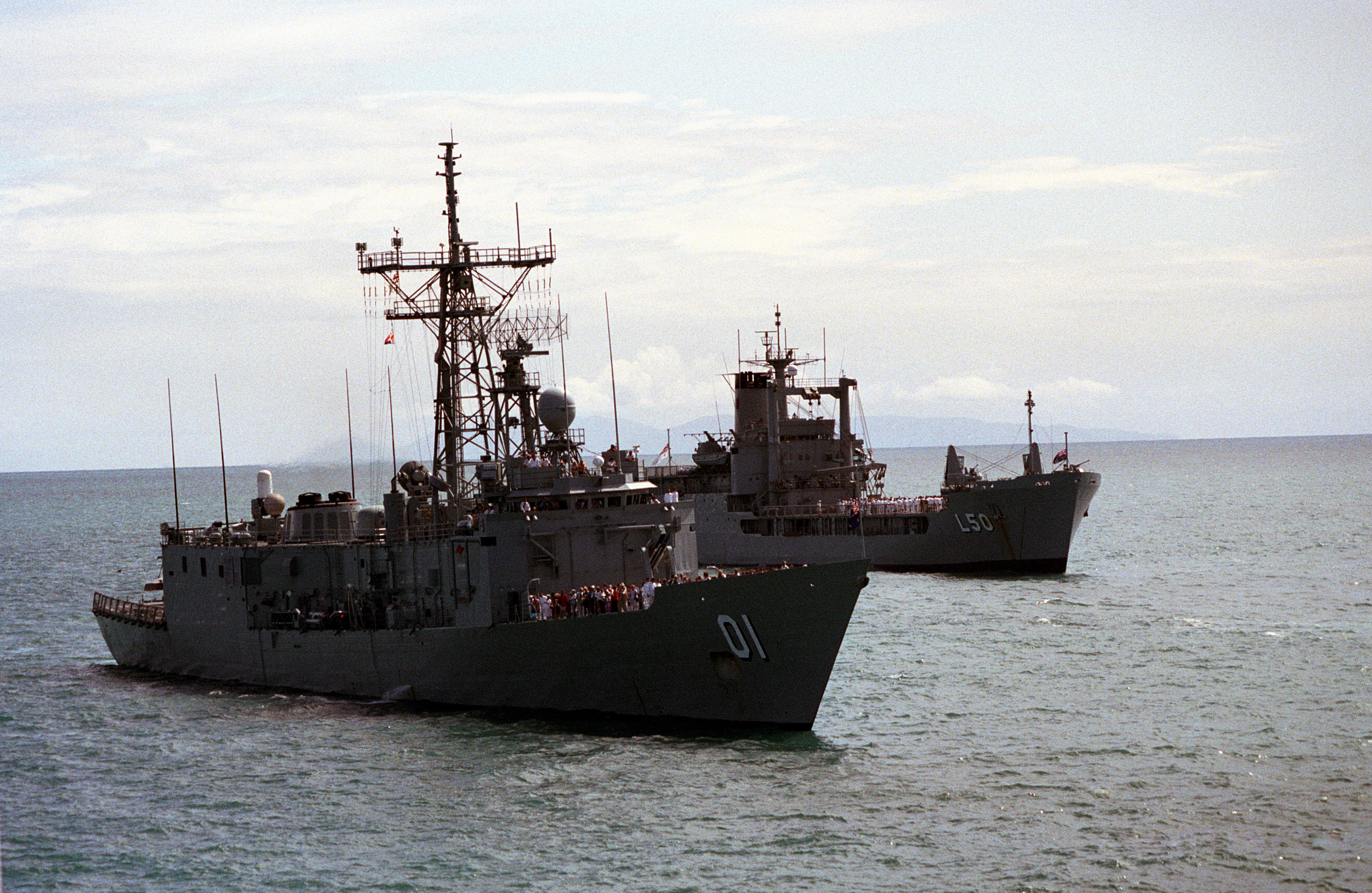 A starboard bow view of the Australian guided missile frigate HMAS ADELAIDE (FFG-01) and the heavy landing ship HMAS TOBRUK (L-50) underway as part of an Australian/U.S. Navy task group commemorating the 50th anniversary of the Battle of the Coral Sea.